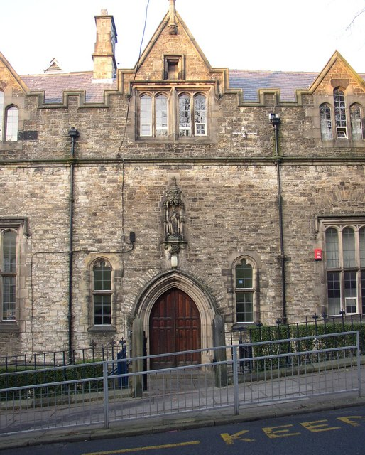 Photograph